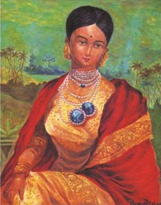 Photograph of Rangamma